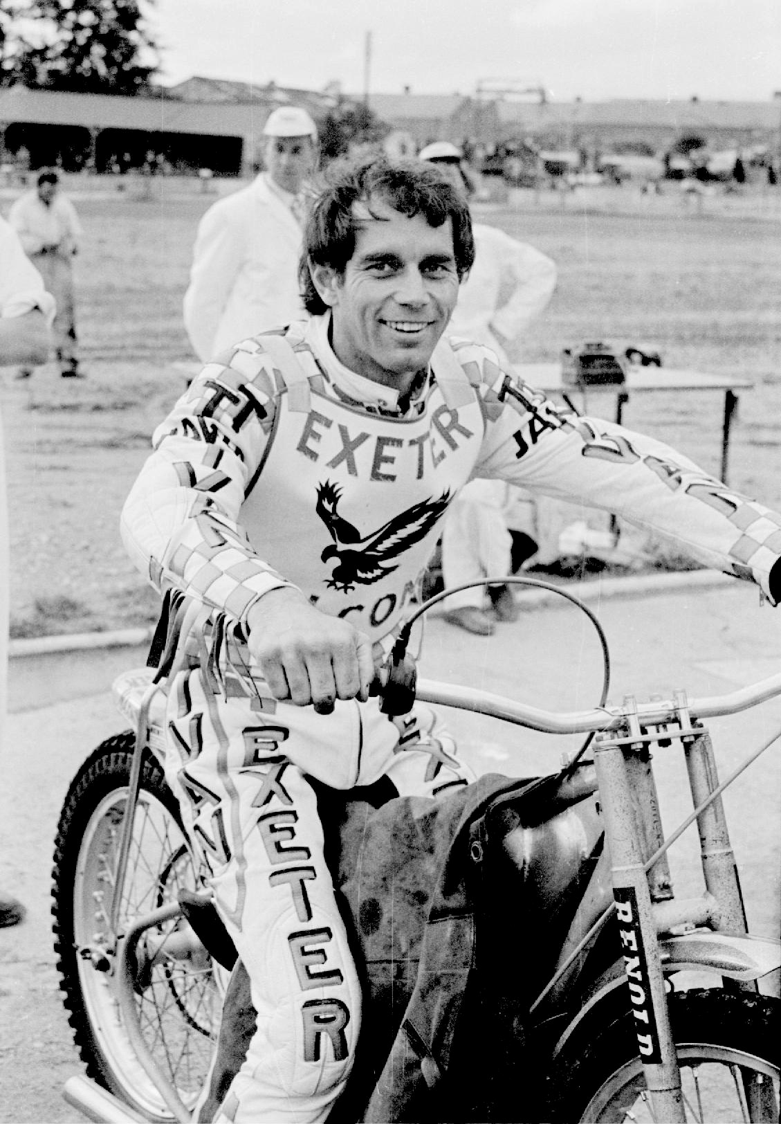 the greatest ever Speedway rider.